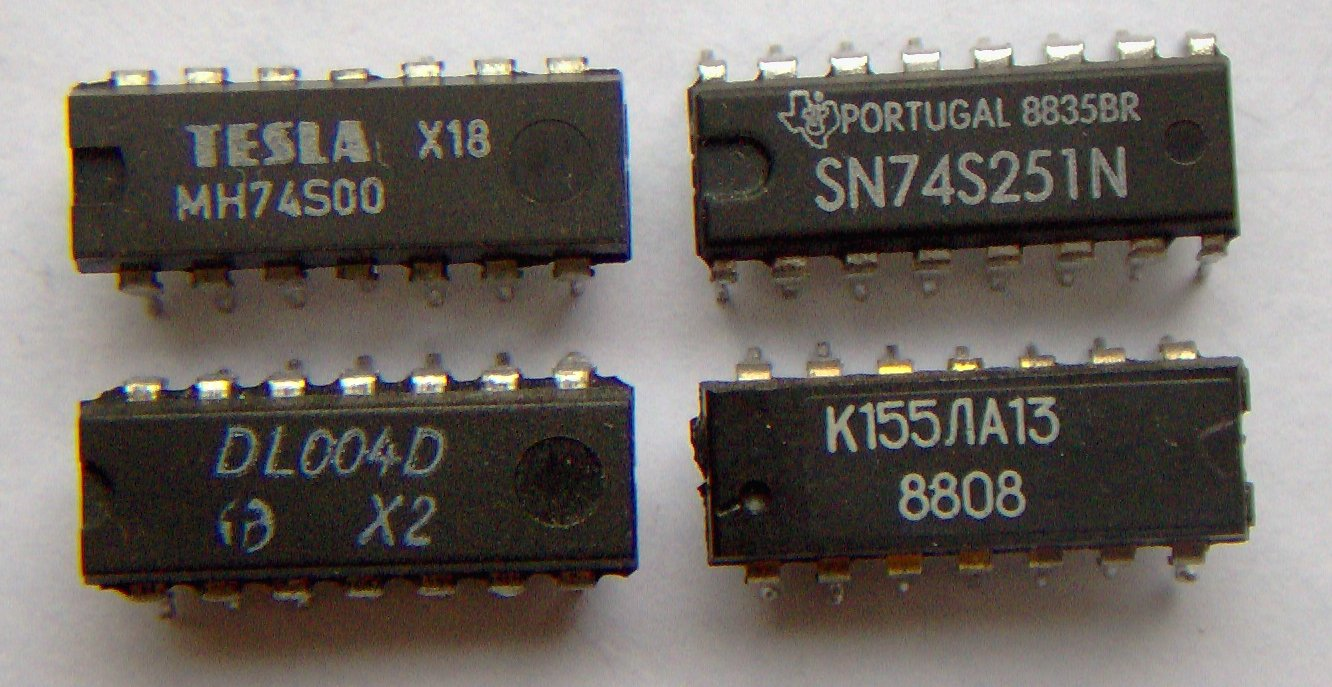 Electronic component - four typical logical (TTL) gates: Czechoslovak MH74S00, Texas Instruments SN74S251N, East German DL004D (74LS04), Soviet K155LA13 (7438)